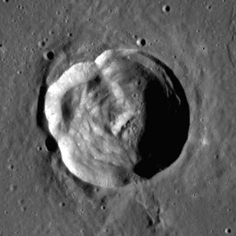 Crater Arago on the Moon, in western Mare Tranquillitatis. Centered at 6.15°N, 21.45°E (according to JMARS). Mosaic of photos by Lunar Reconnaissance Orbiter, made with Wide Angle Camera. Width of the photo is 43 km, north is up.